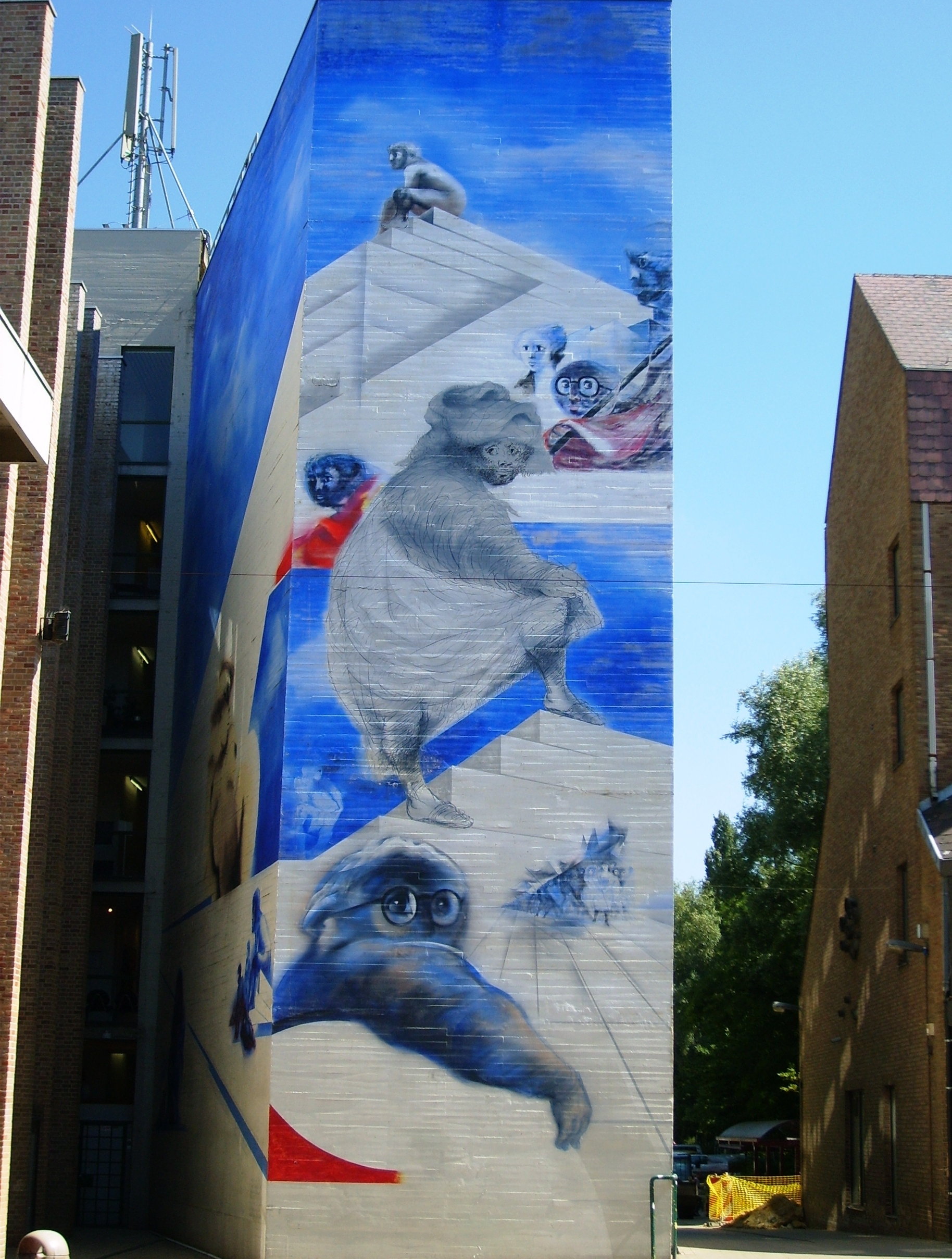 Louvain-la-Neuve, Belgium, Qu'est-ce qu'un intellectuel ? (“What is an intellectual ?”), mural by Roger Somville (1987), rue des Wallons